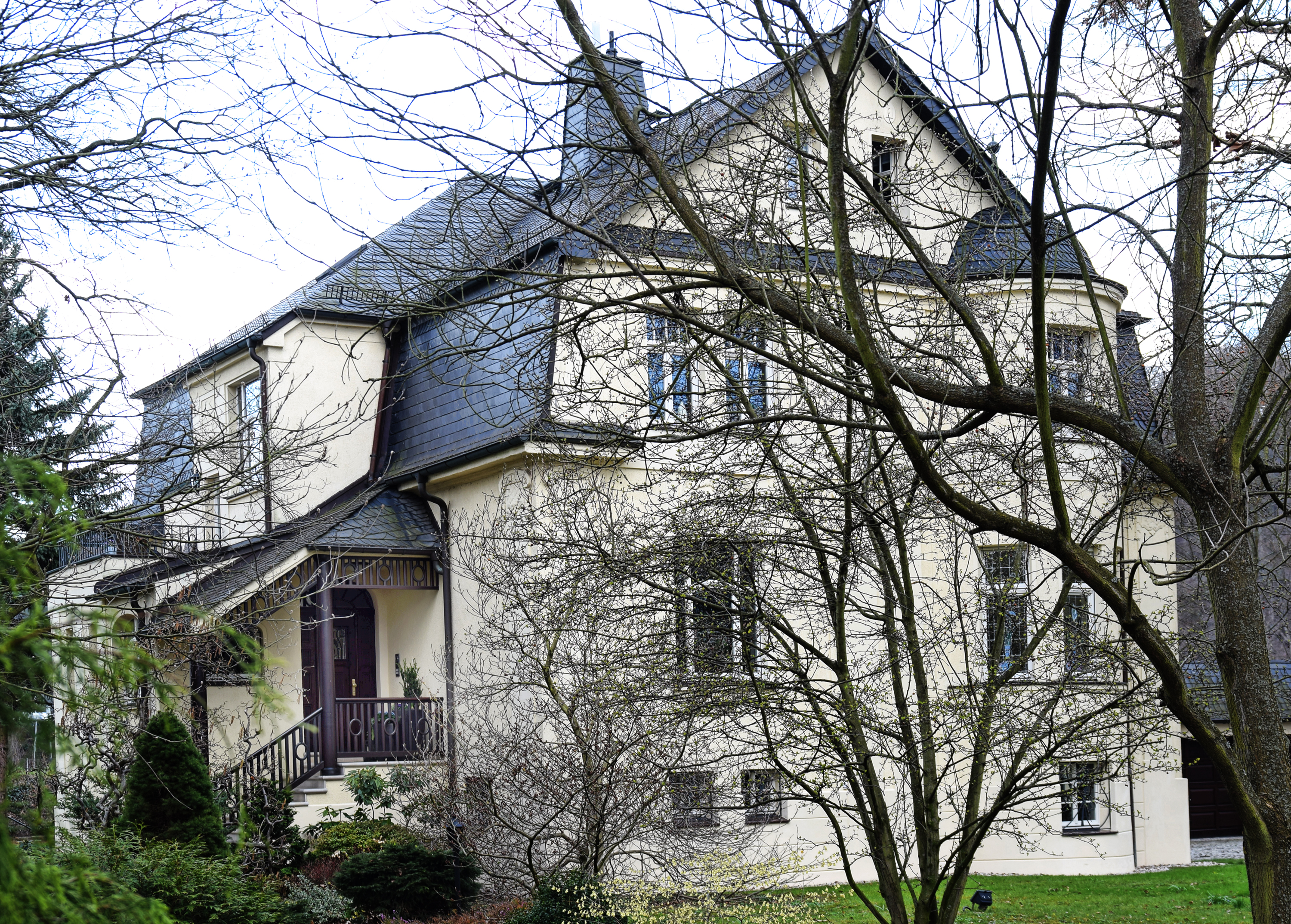 Villa Bloch at Küchengartenallee 21 in Gera, Germany; built in 1913 by architect Köberlein